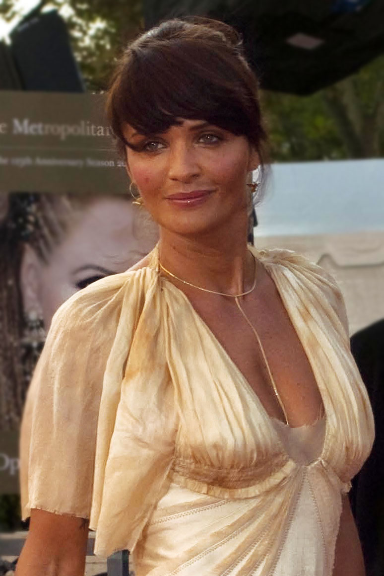 Model Helena Christensen, at the Metropolitan Opera opening in 2008. © Rubenstein, photographer Martyna Borkowski